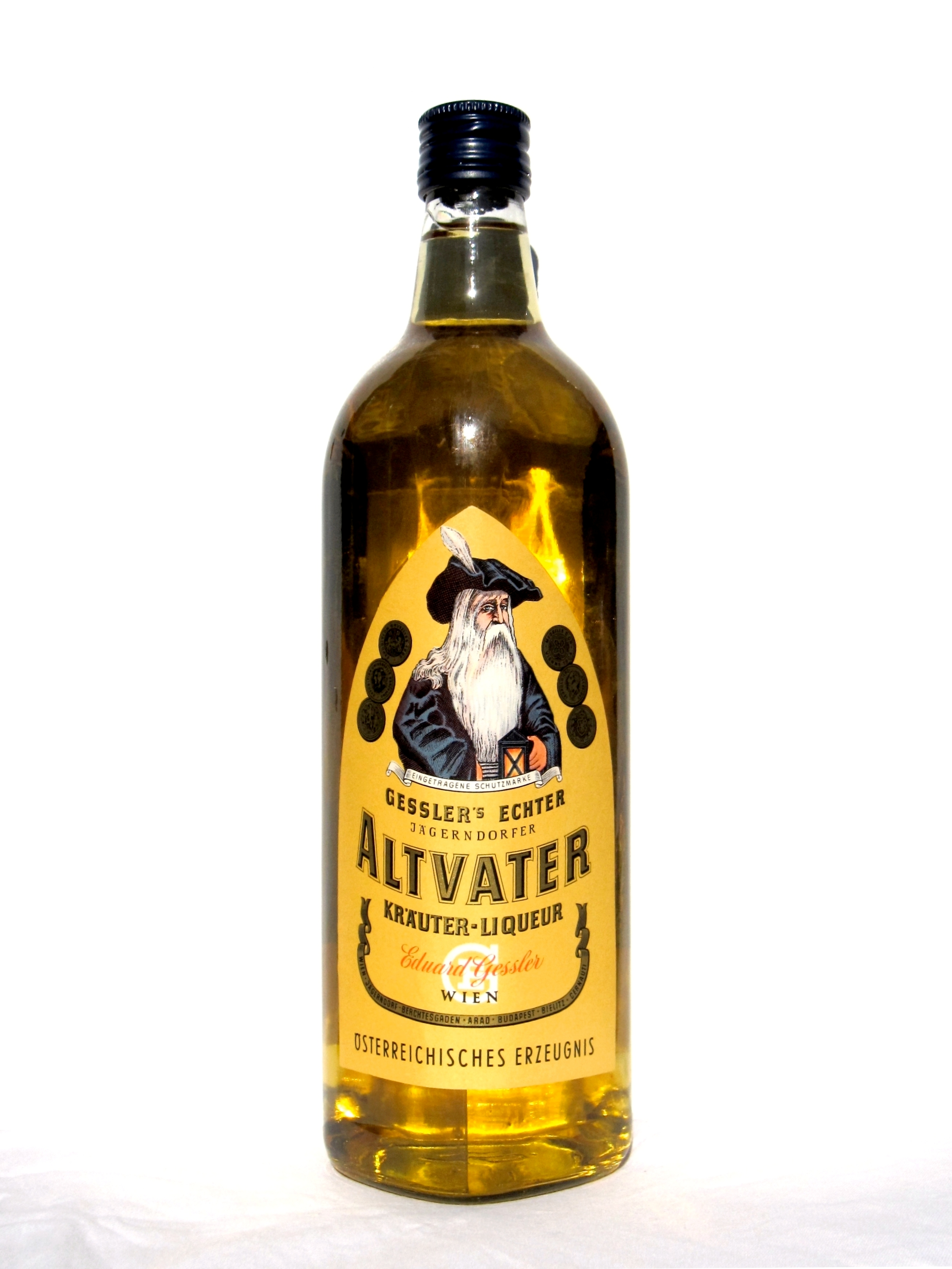 Altvater liqueur by E. Gessler